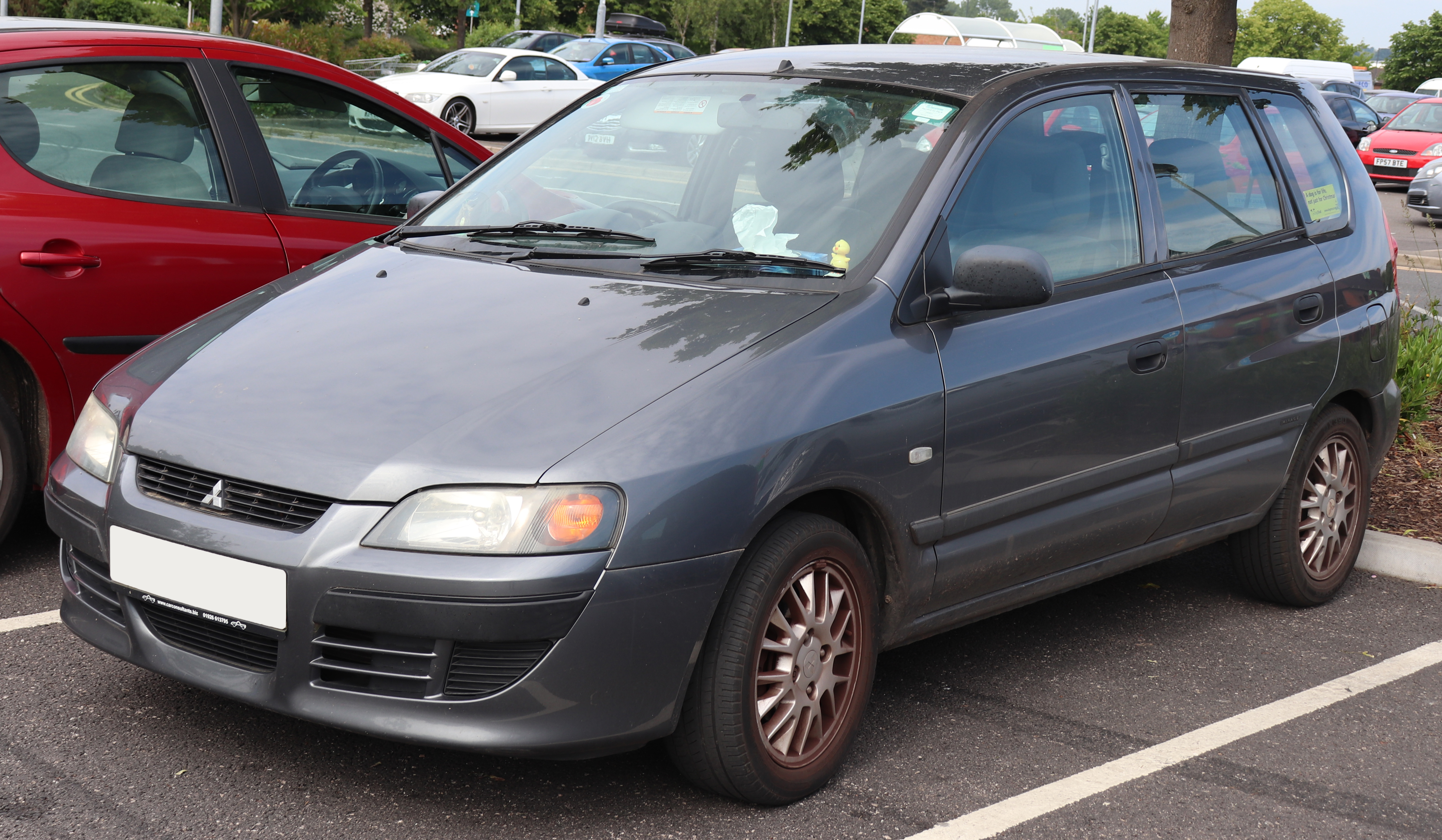 2004 Mitsubishi Space Star Mirage 1.3 Taken in Leamington Spa